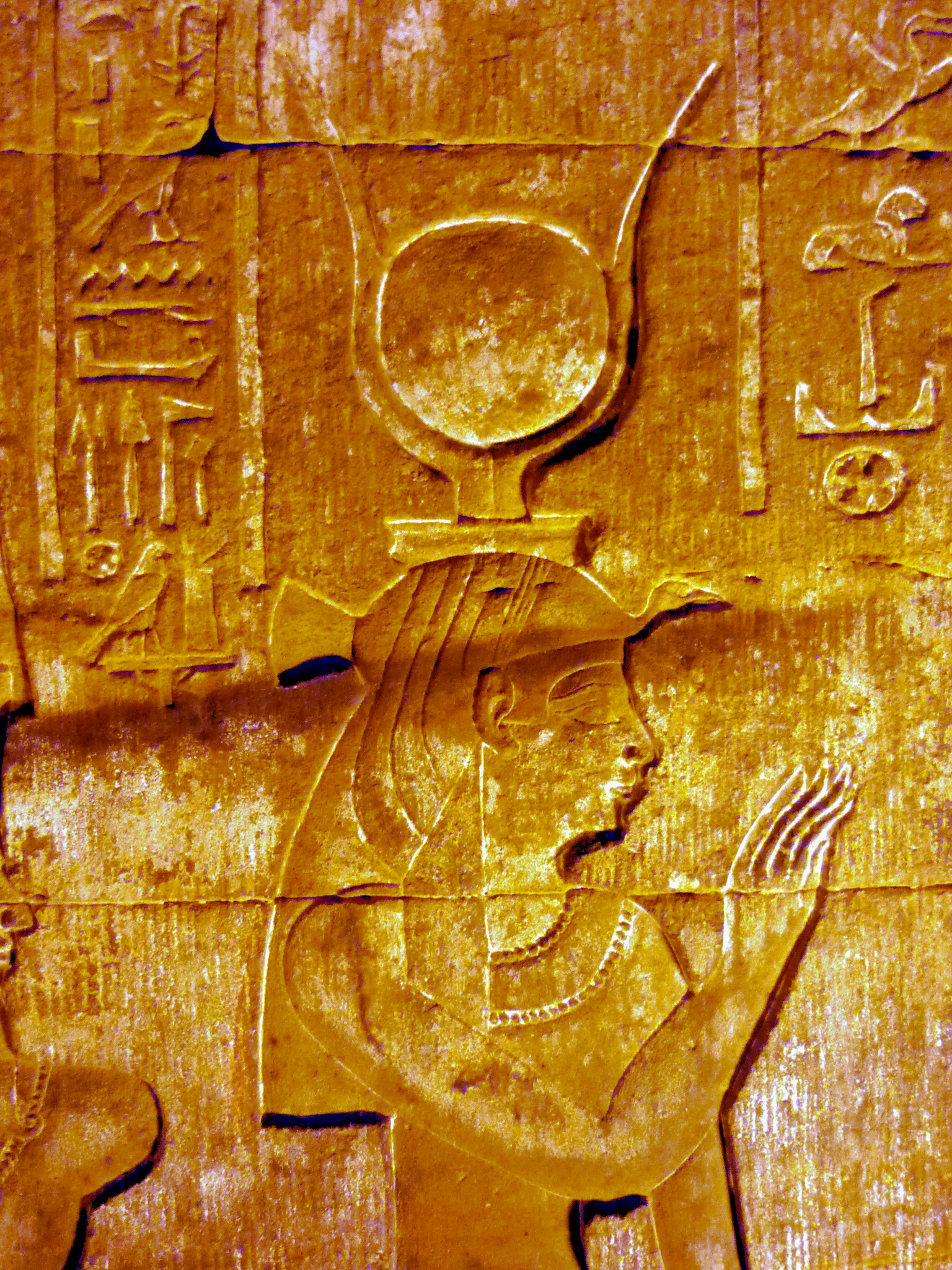 Wall relief of Isis in east upstairs, temple of Edfu, Egypt